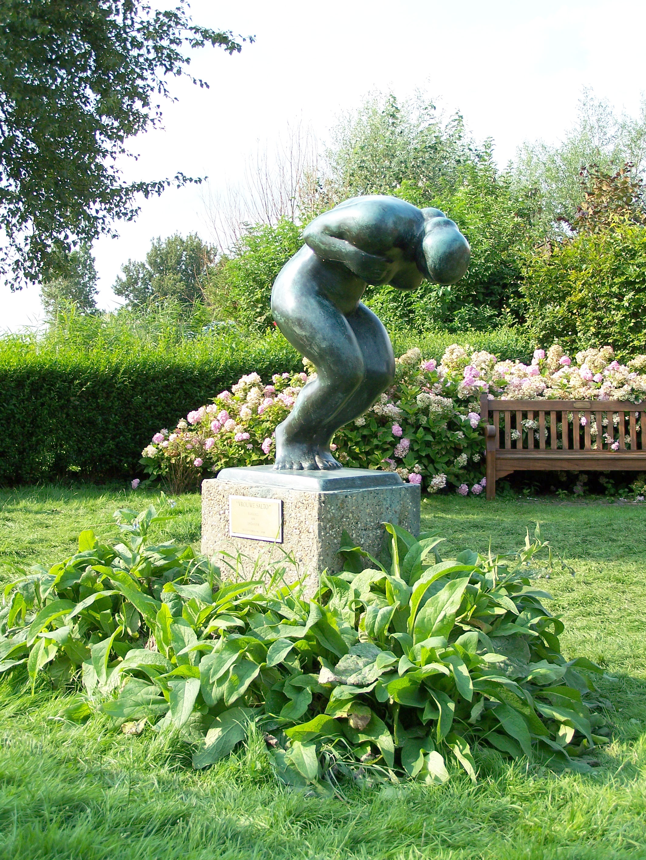 Sculpture "Vrouwe Salto" (Woman's somersault) (1973-1983) by Nic Jonk. Placed at the corner of the Driehuizerweg/Driehuizen in Driehuizen, North-Holland.